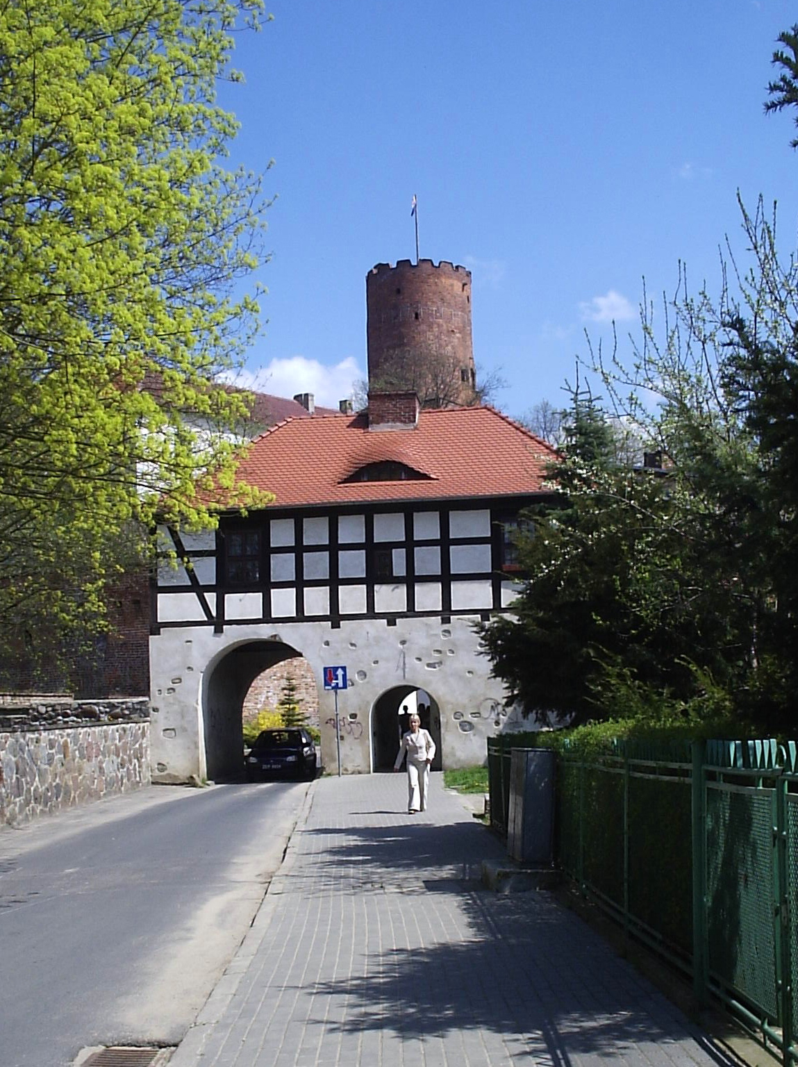 Brandenburg Gate in Łagów